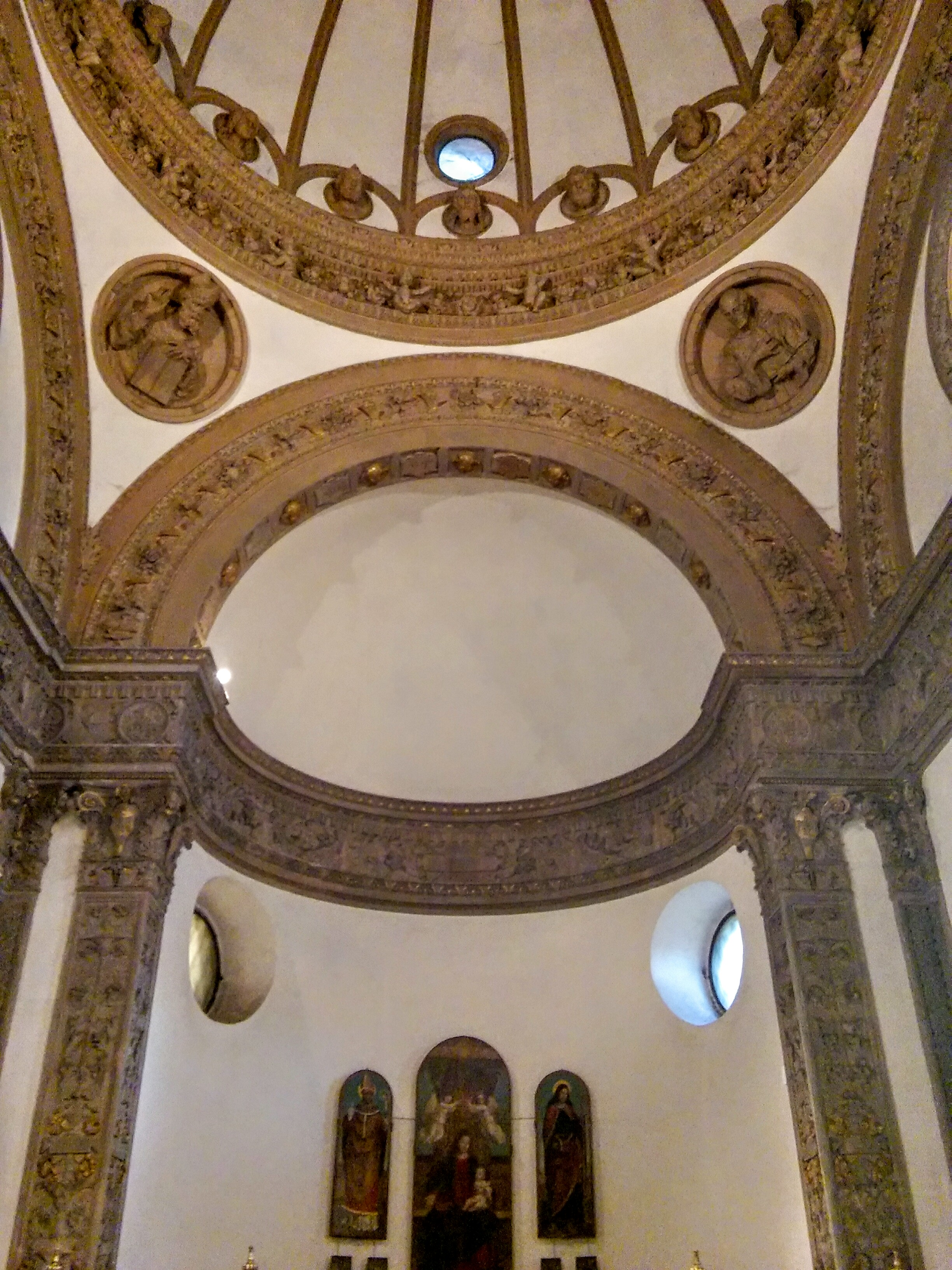 Photo of Brivio chapel in Sant'Eustorgio church, Milan